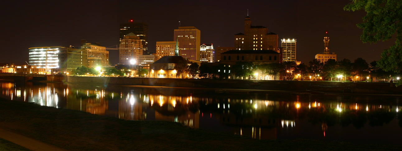 Dayton, Ohio